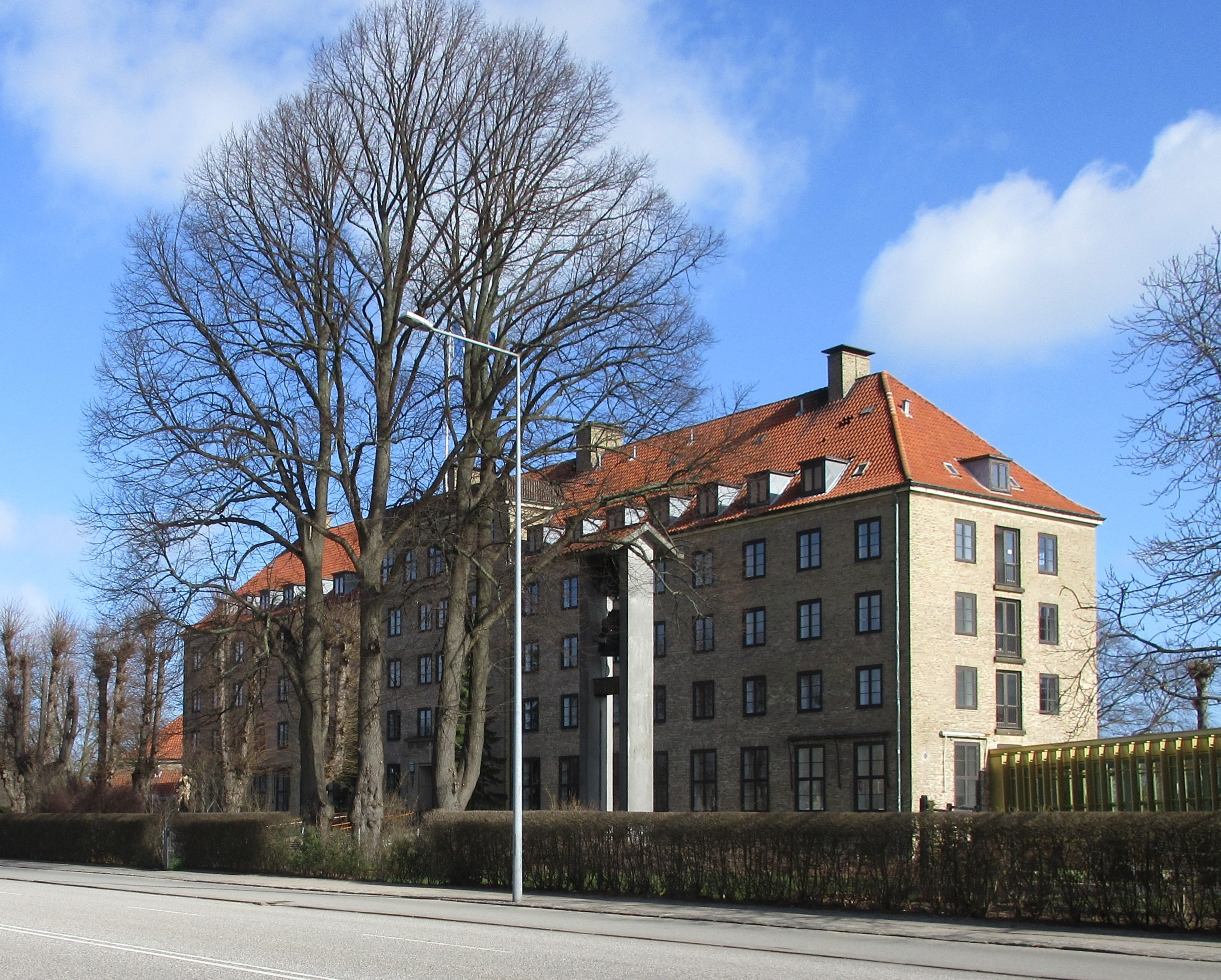 Sankt Lukas Stiftelsen in Copenhagen, Denmark